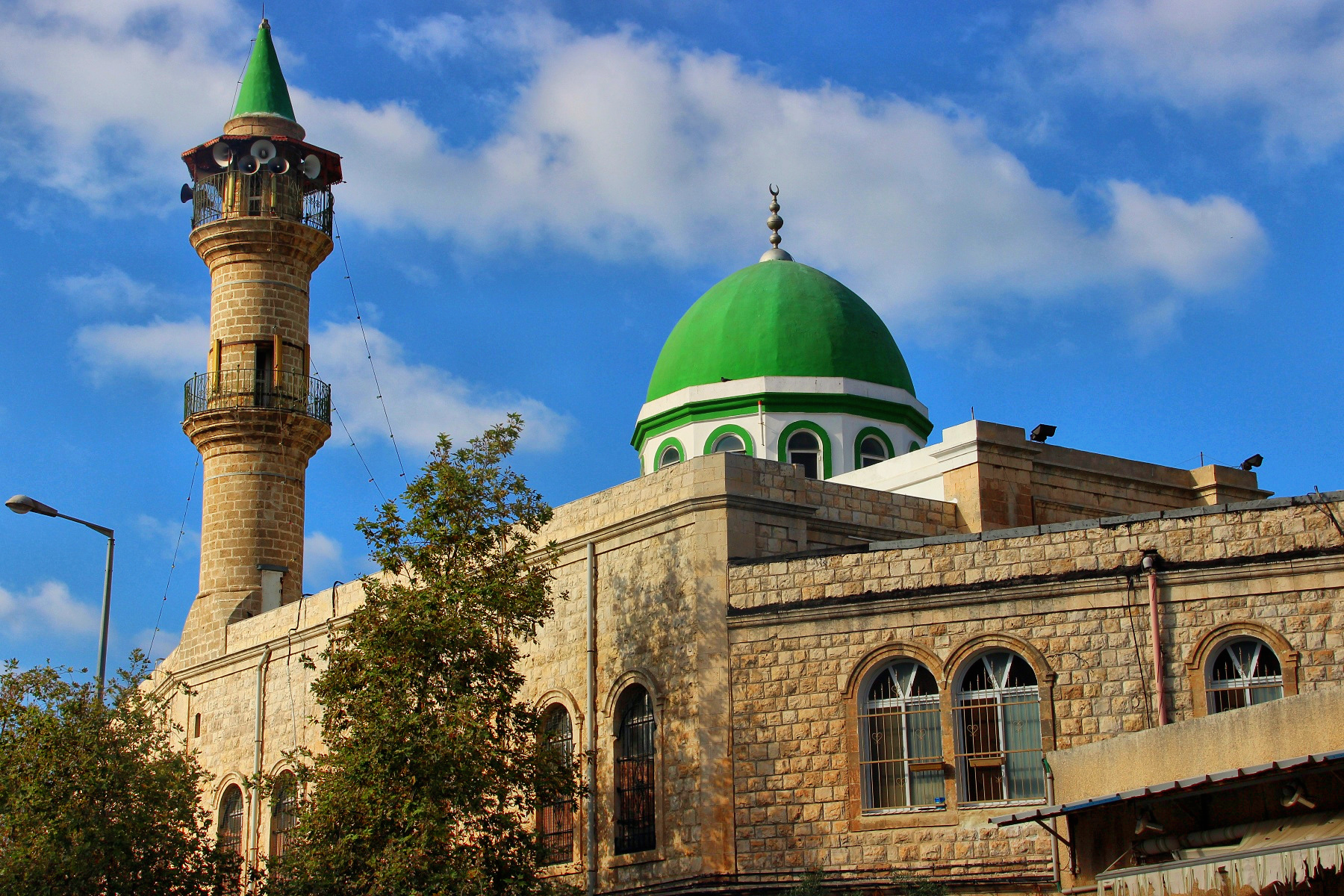 Istiqlal Mosque (Haifa)